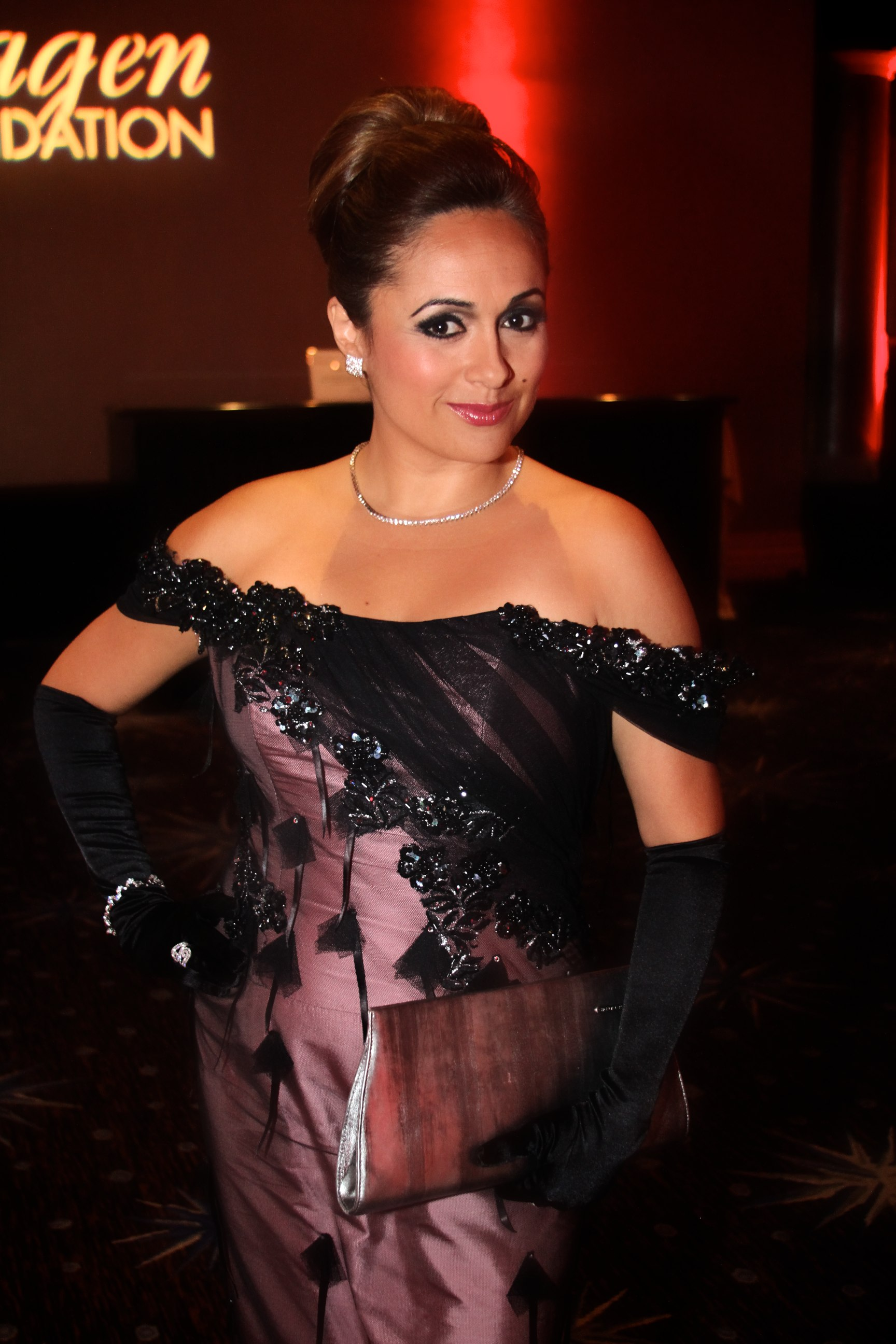 2013 Imagen Foundation Awards, Elizabeth Espinosa